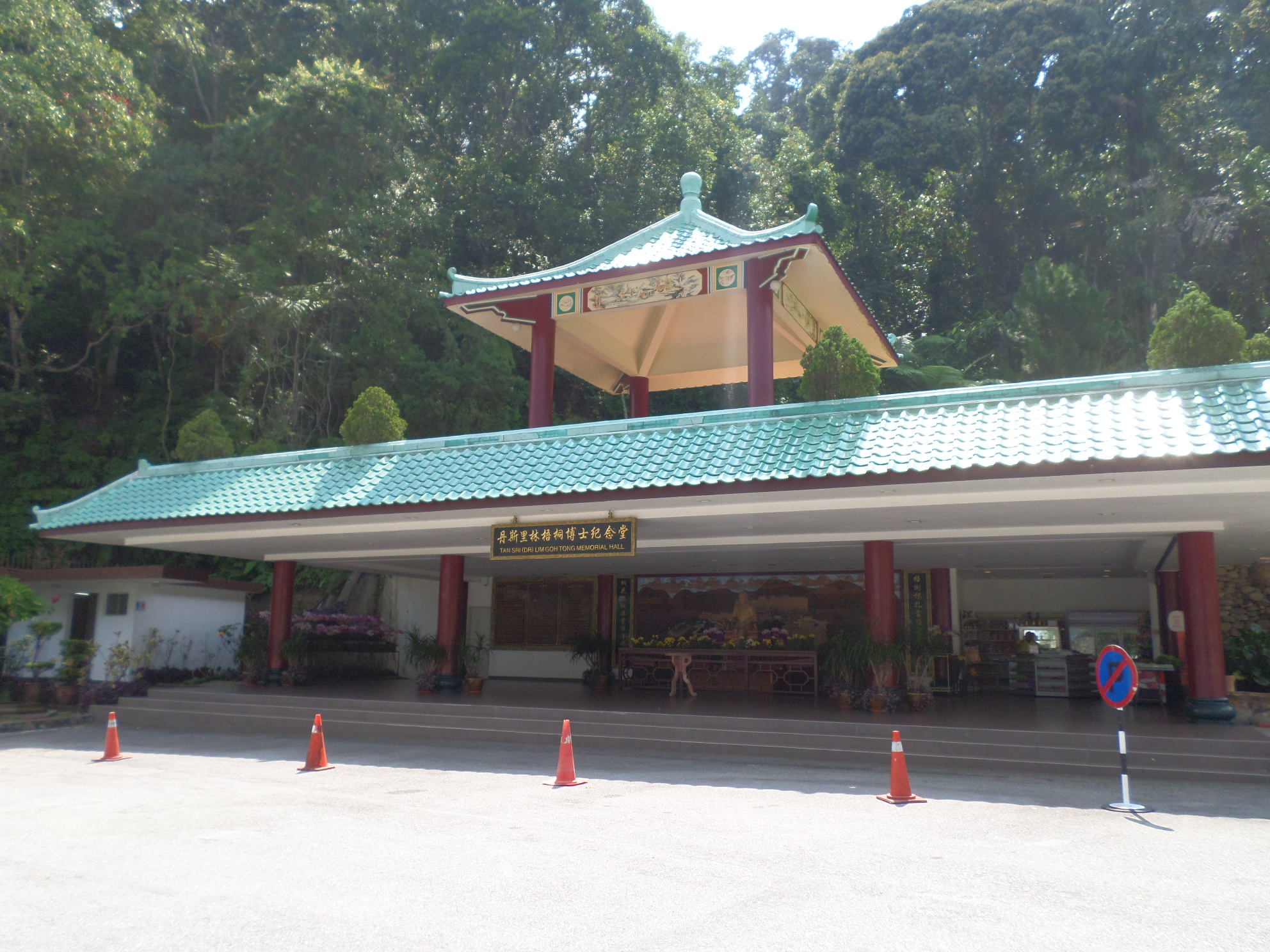 Tan Sri (Dr) Lim Goh Tong Memorial Hall, Genting Highlands, Bentong, Pahang, Malaysia